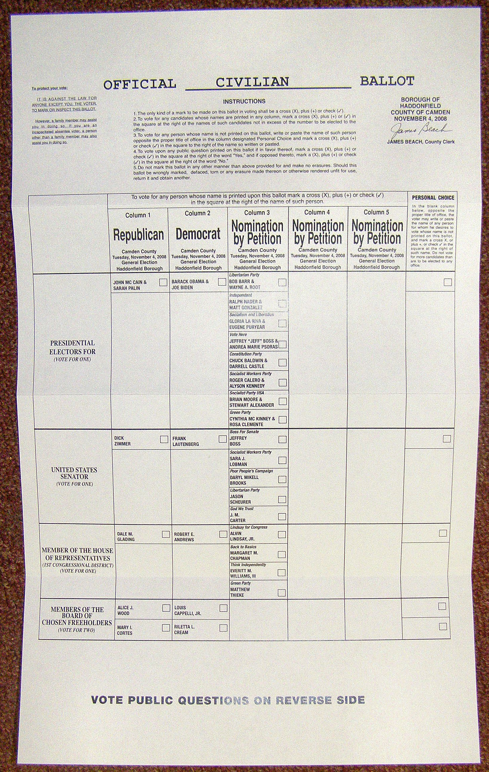 Absentee ballot for the 2008 United States General Election for the Borough of Haddonfield in Camden County.